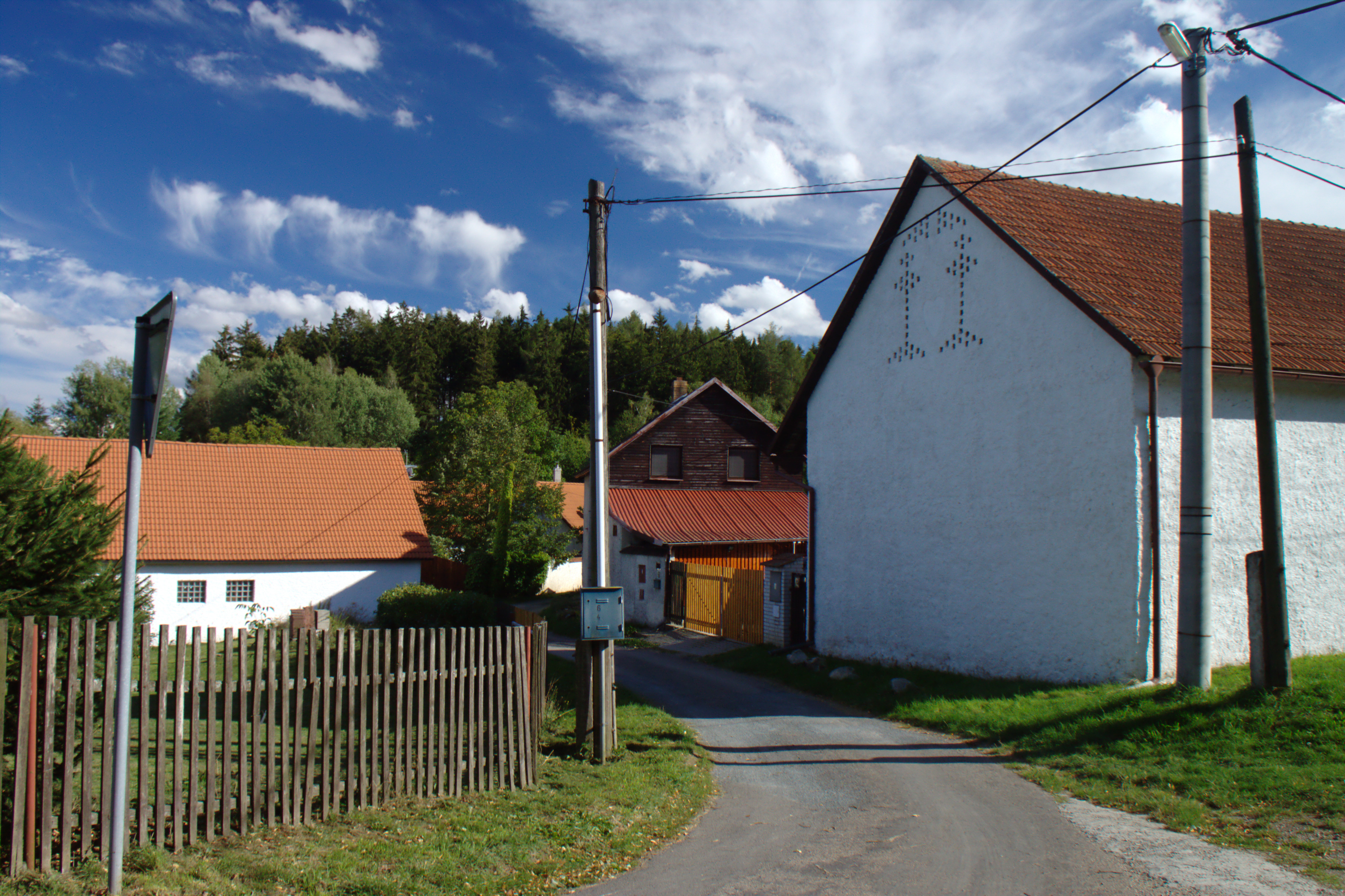 A road passing through the village of Holčovice, Central Bohemia, CZ